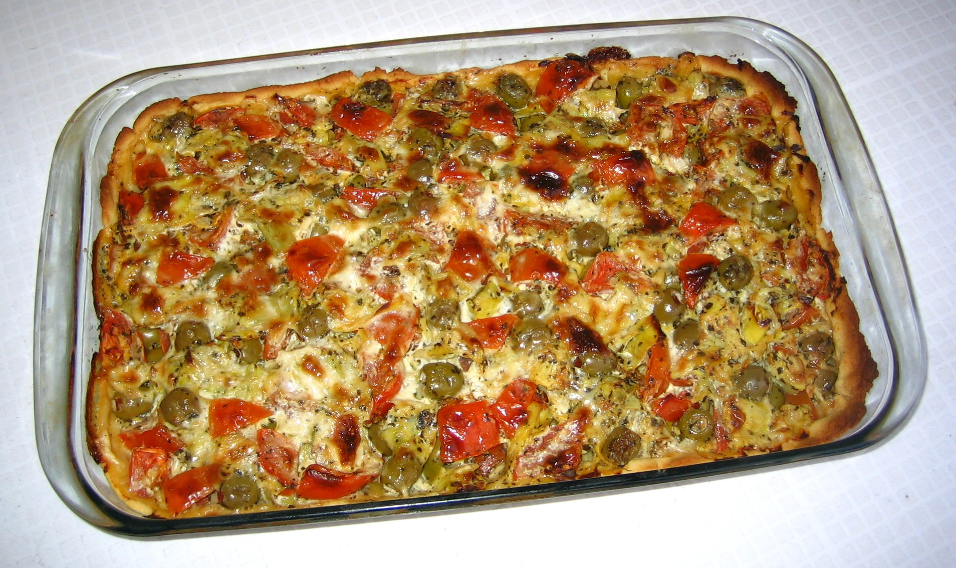 Artichoke heart pie.